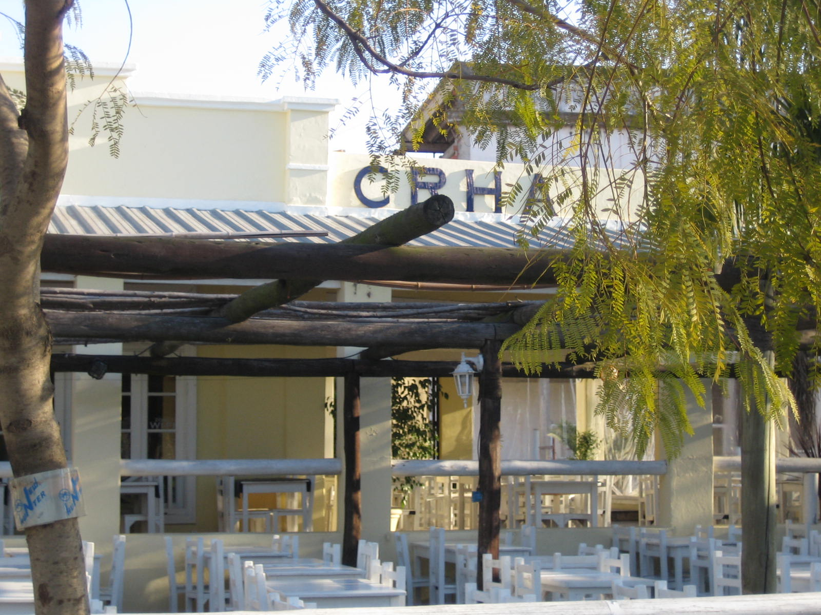 Club de Regatas Hispano Argentino - El Tigre - Buenos Aires - Argentina